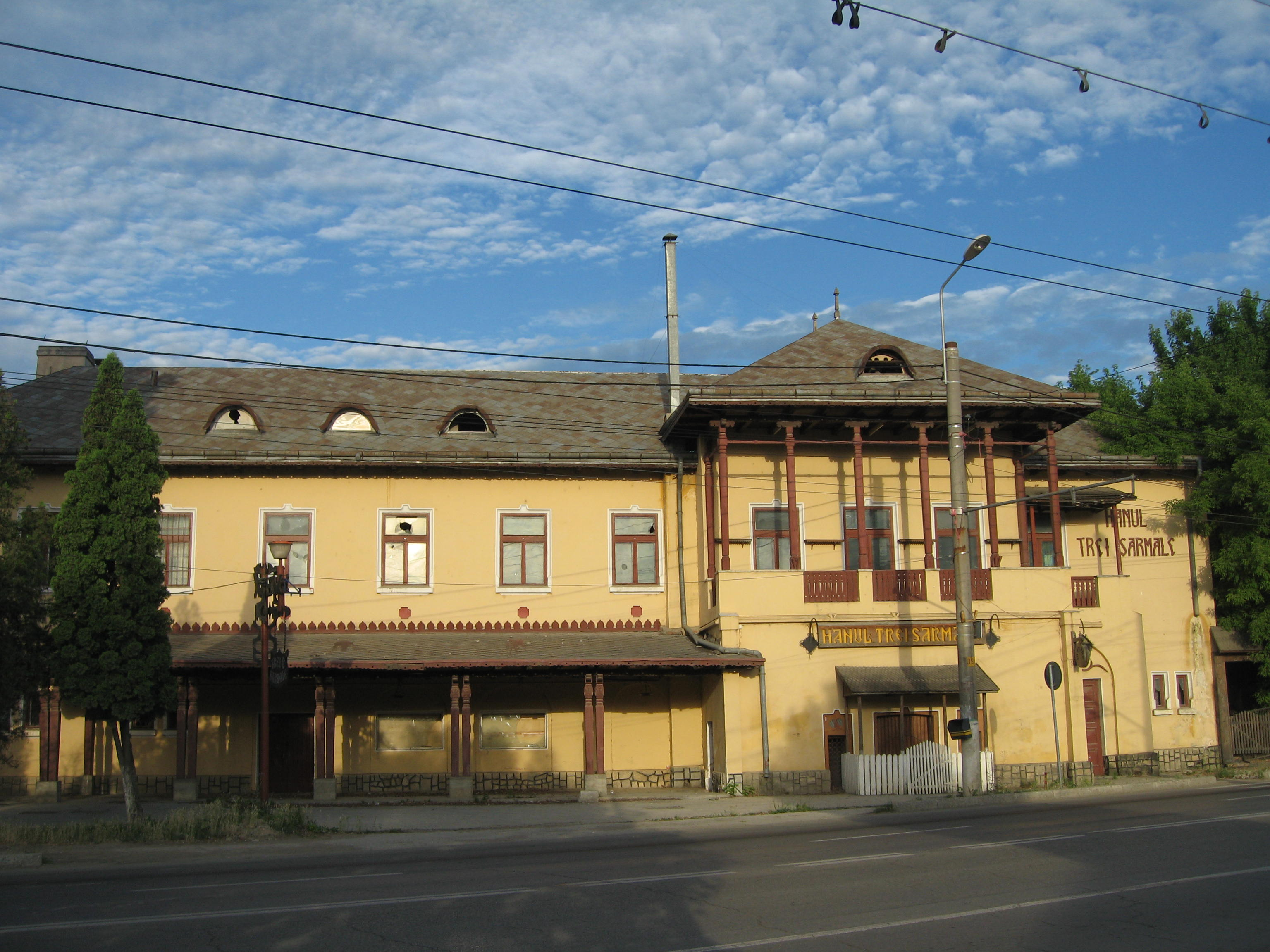 Iasi , Inn “Trei Sarmale , Iaşi , Romania